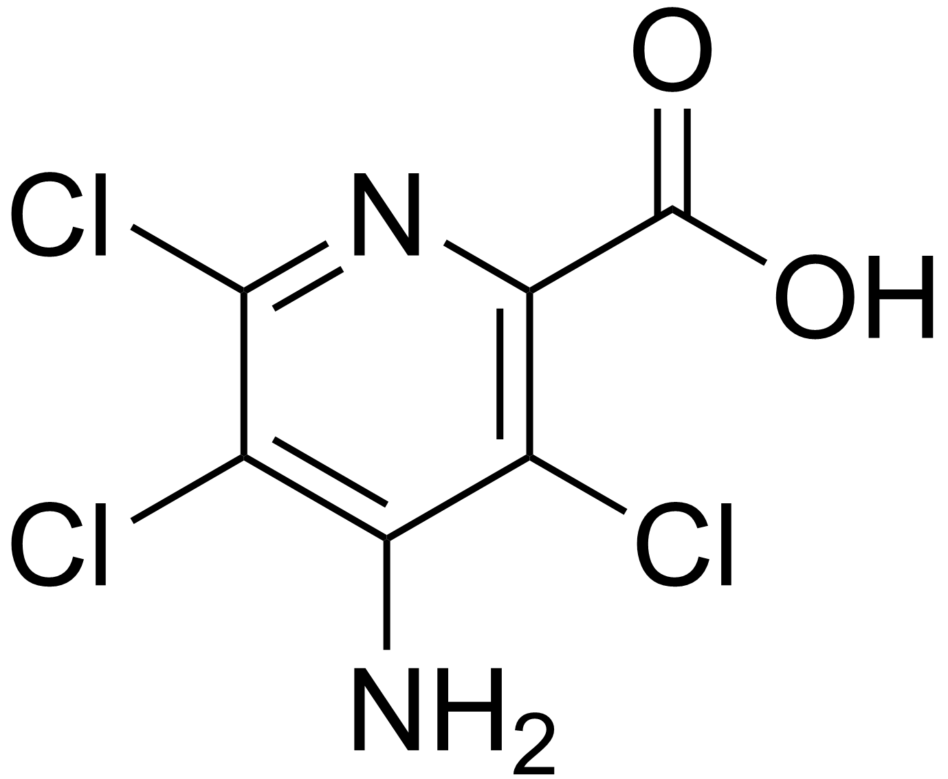 chemical structure of picloram